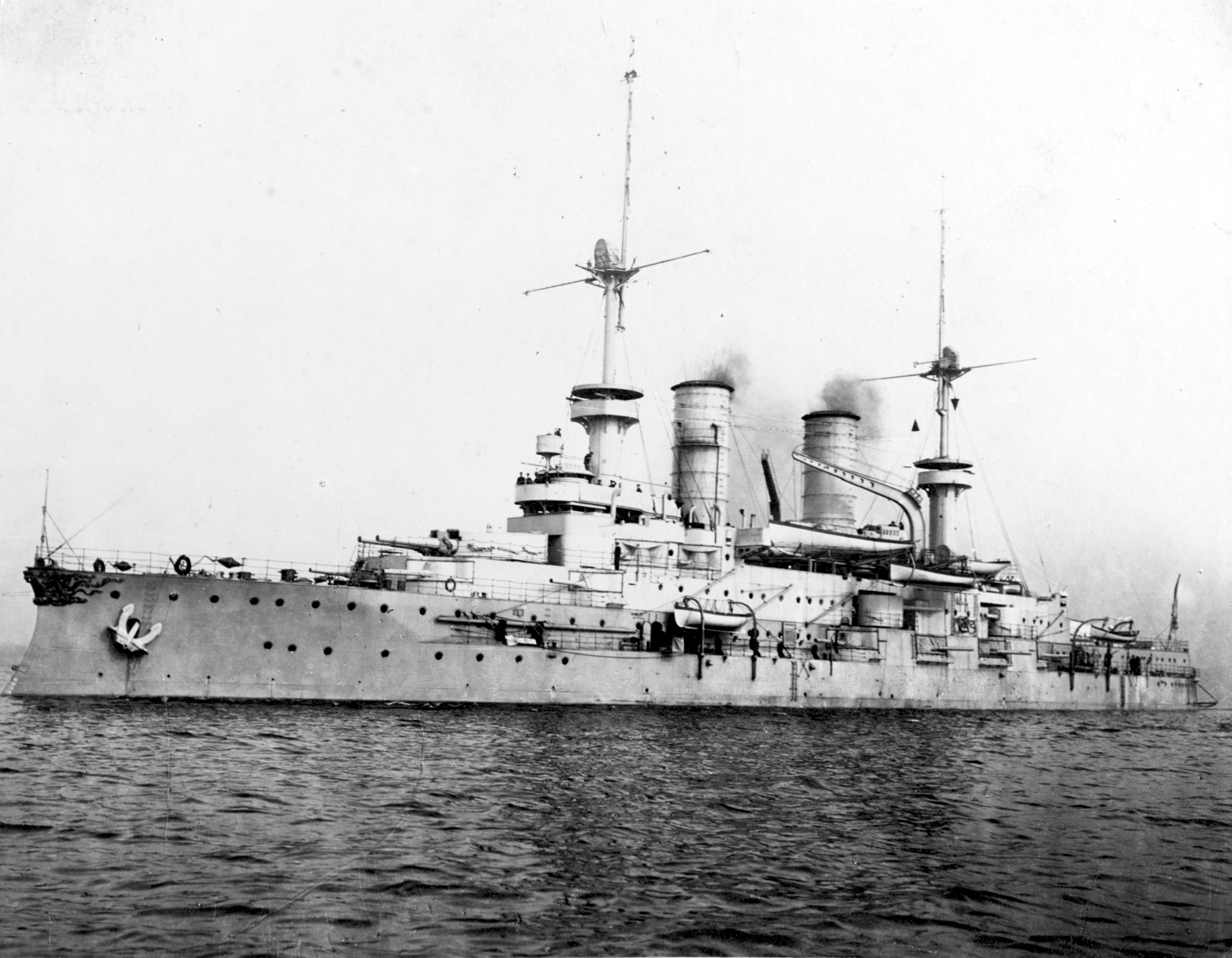 Title: WITTELSBACH (German Battleship, 1900-1921) Caption: Photographed by A. Renard of Kiel, Germany, in a print dated about 1910 (The photograph may date from earlier).